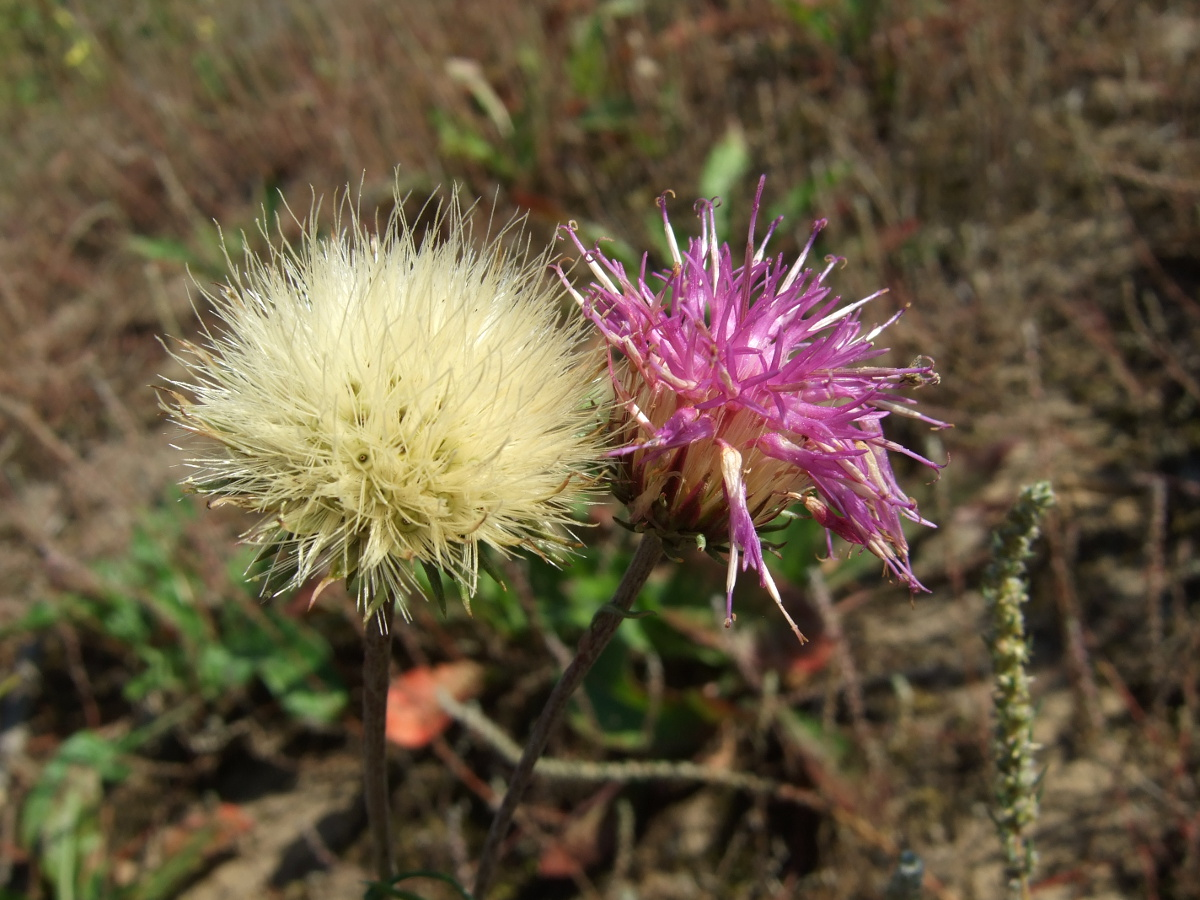 Jurinea cyanoides, flowering and fruiting. Sand dune at Darmstadt-Eberstadt, Hessia, Germany.